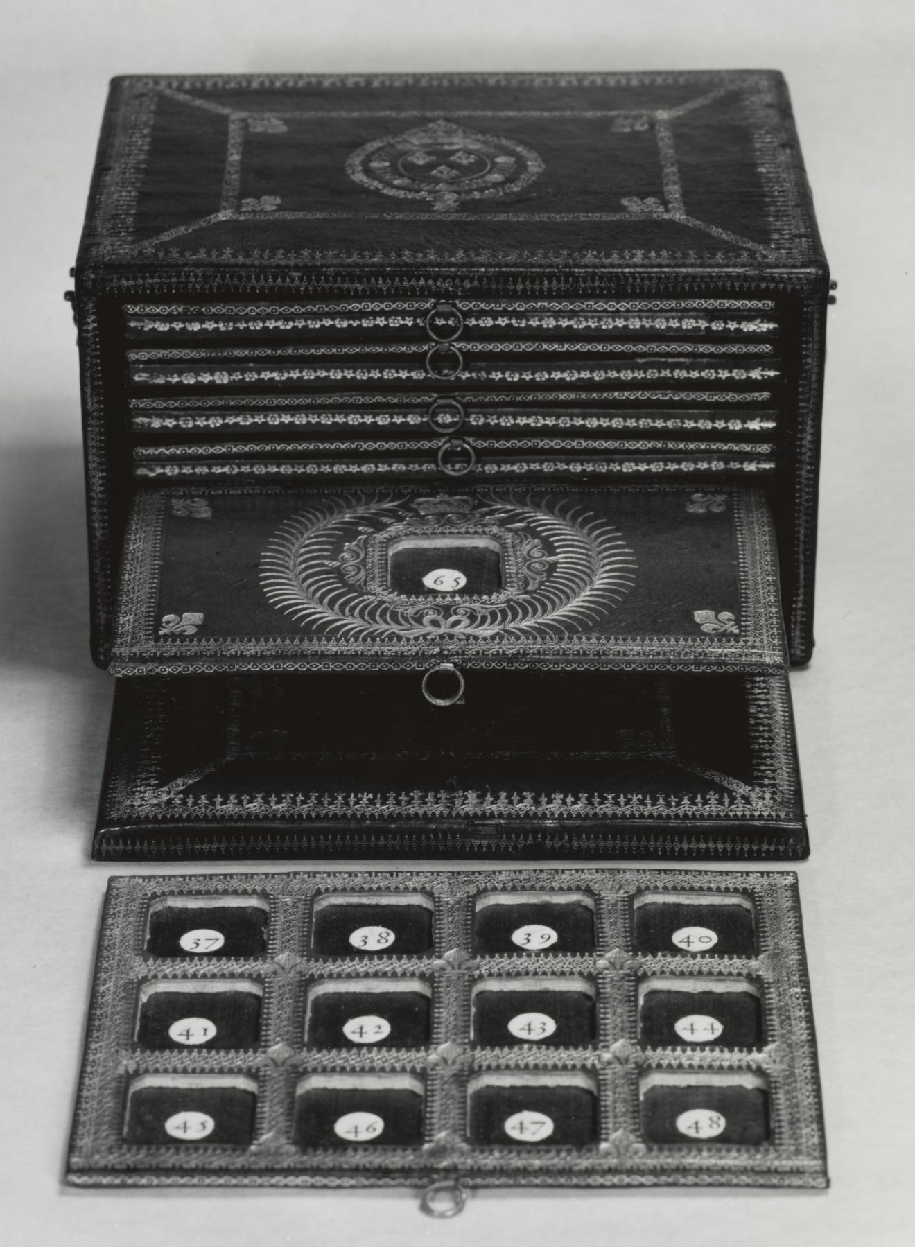 This cabinet bears the arms of King Louis XIV of France (1638-1715); it may have been a gift from the monarch or a royal possession.